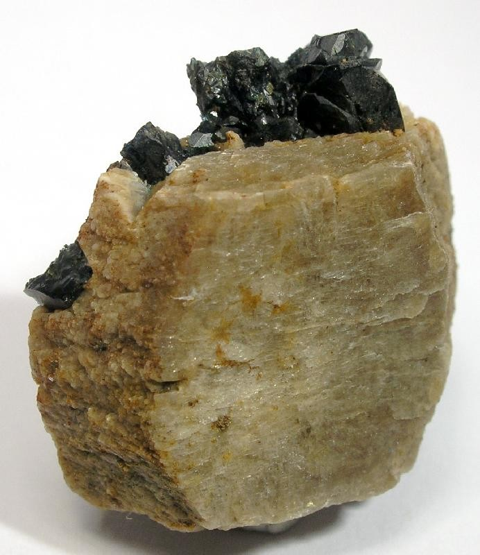 Whiteite, Lazulite Locality: Rapid Creek, Dawson Mining District, Yukon Territory, Canada (Locality at ) Attractive equant crystal of Whiteite that has good luster and sharp form, intergrown with multiple crystals of Lazulite along the back and on the top. Free from contact, the ones along the top have retained good crystal habit, making this a very good combination piece. 2 x 1.9 x 1.3 cm